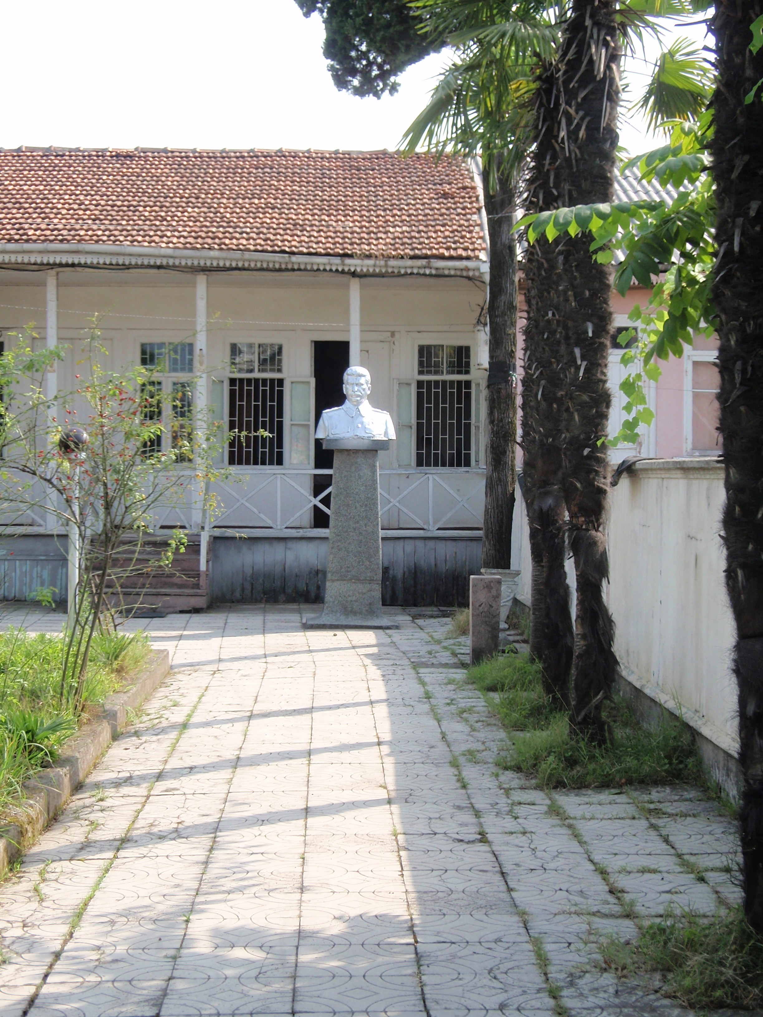 Entrance to the Stalin museum in Batumi, Georgia